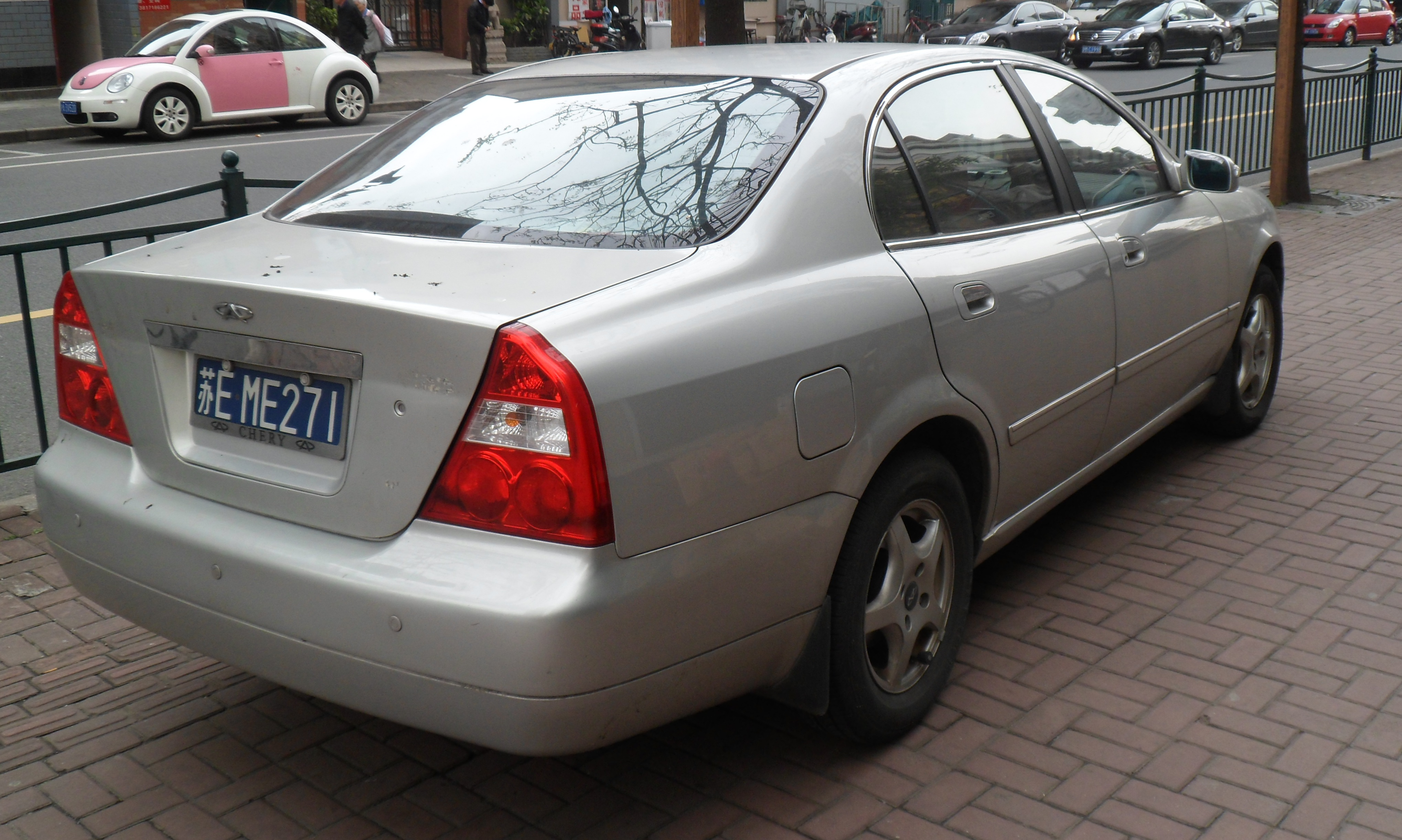 Chery Eastar facelift photographed in Shanghai, China.